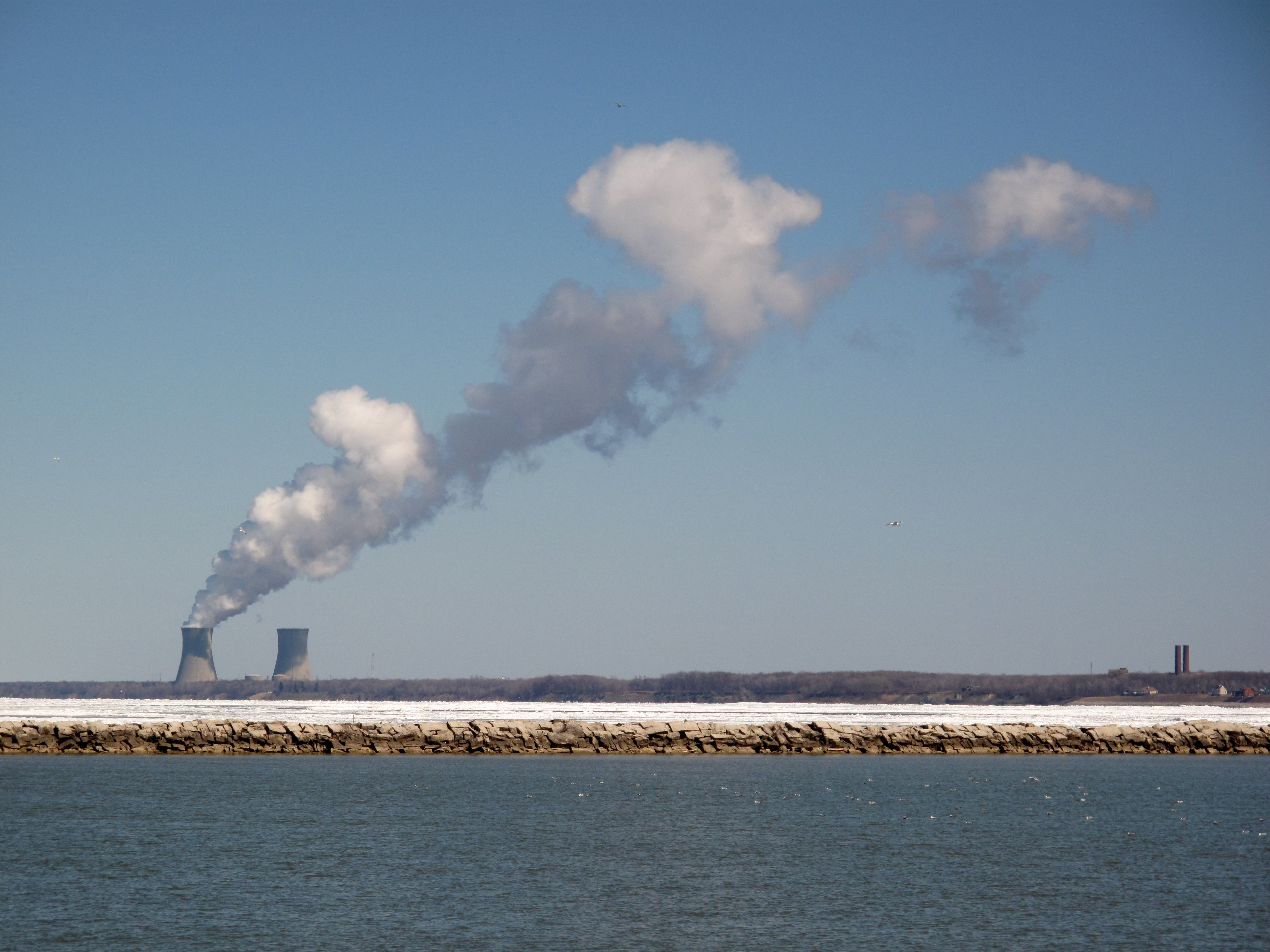 Perry Nuclear Power Station as seen from Headlands State Park, Mentor, Ohio, USA